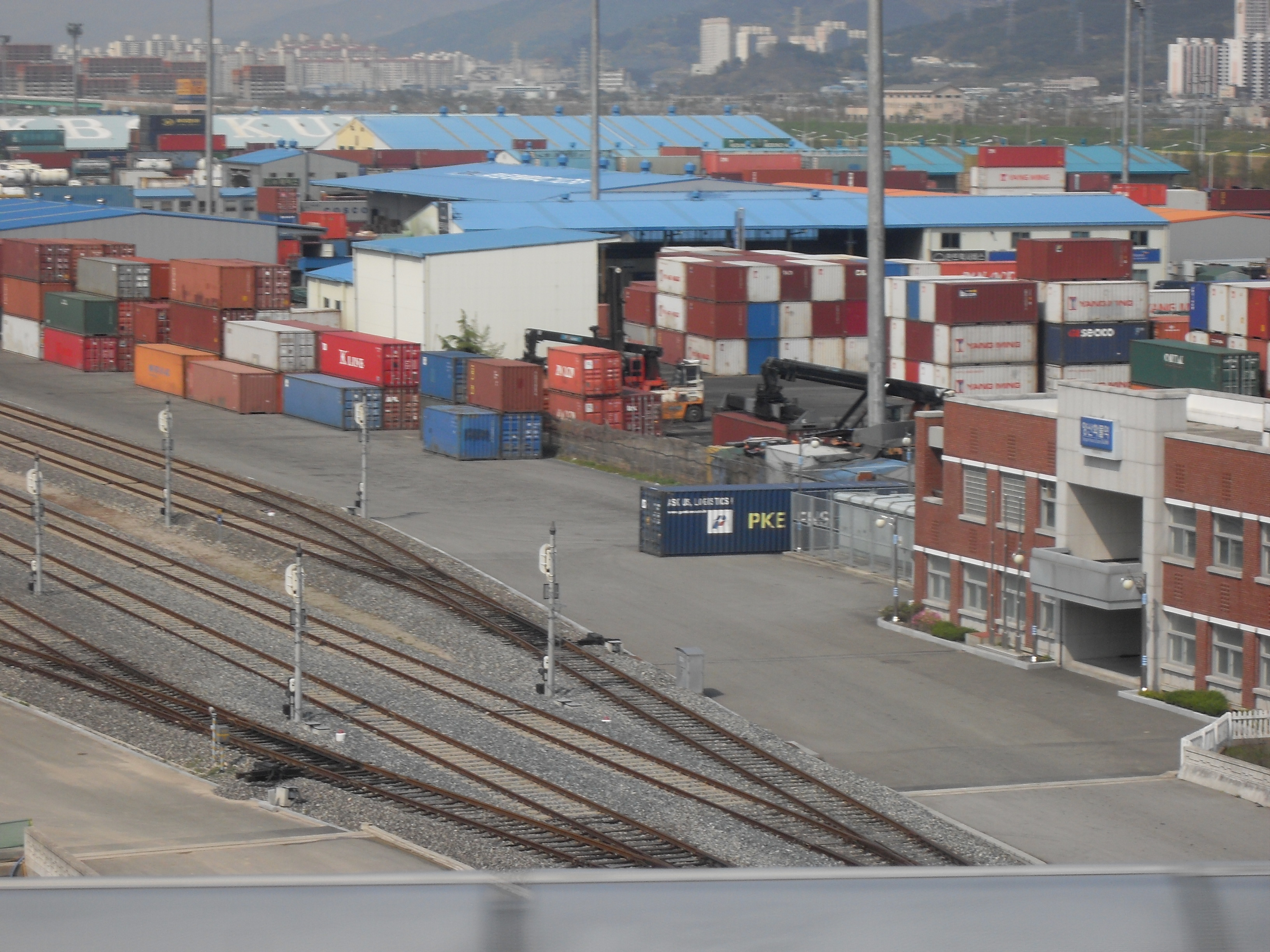 Yangsanhwamul station.